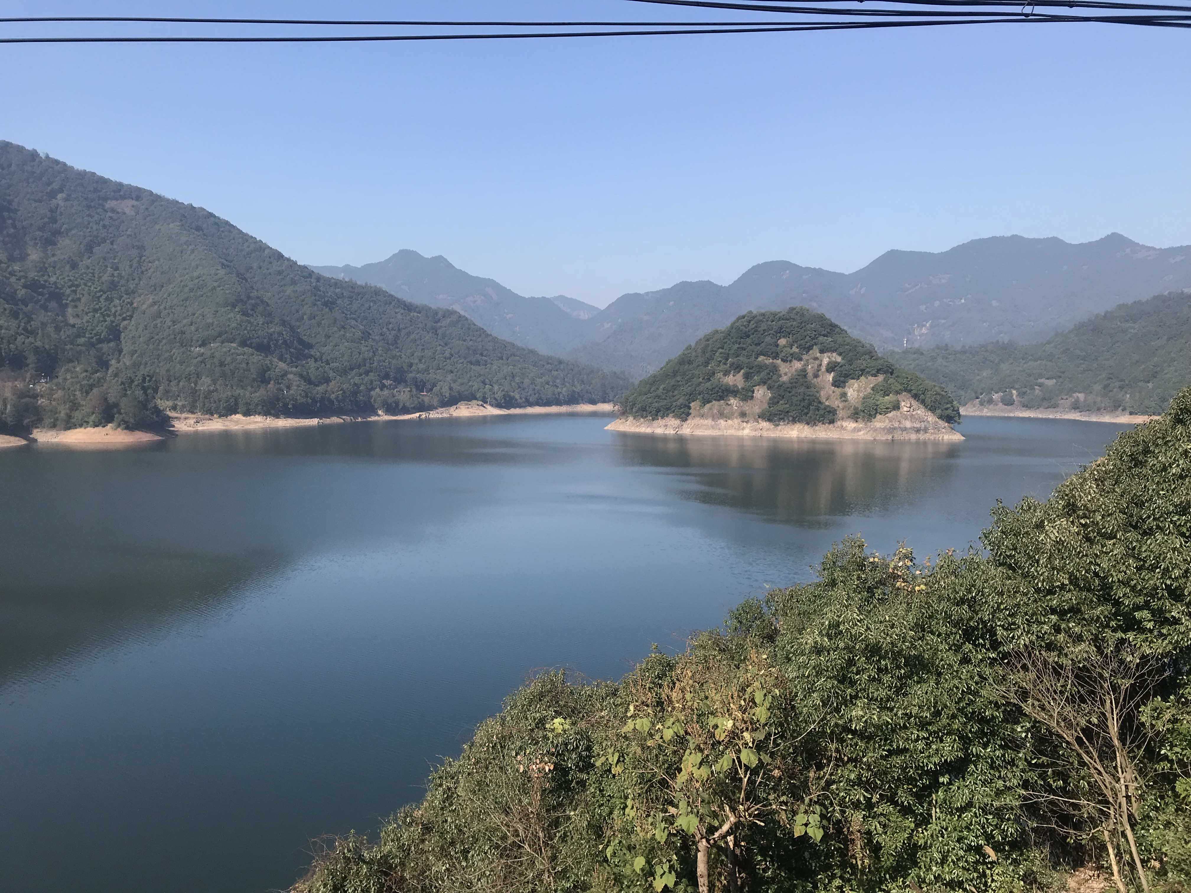 201812 Andi Reservoir Waterbody1